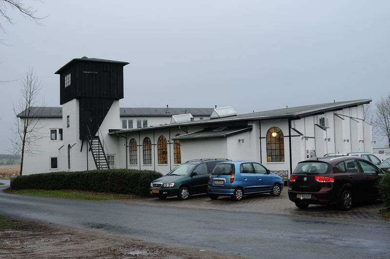 Former roundhouse build by the railway company Præstø-Næstved-Banen in Præstø. Currently in use as a healthcare service.